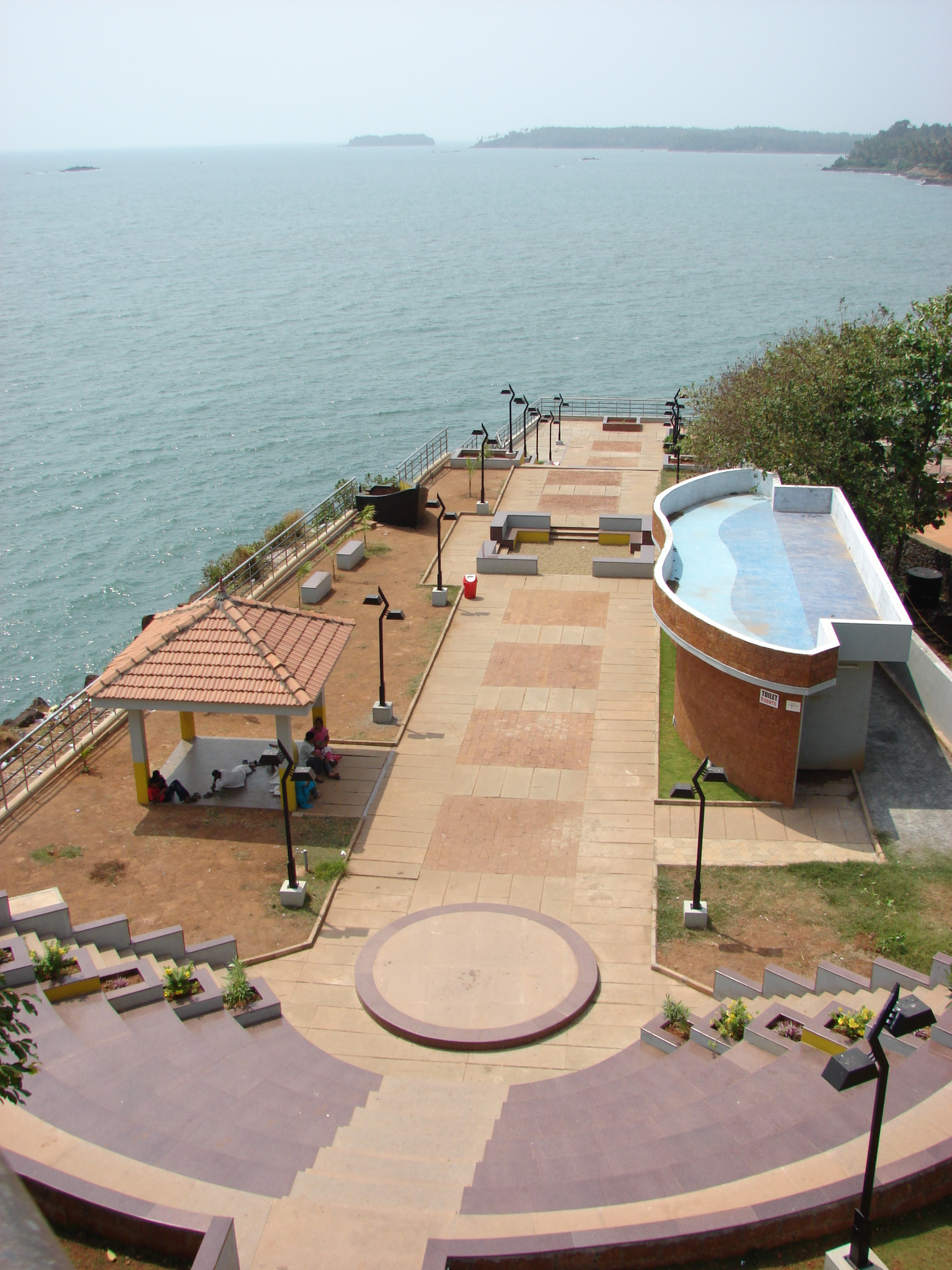 Overbury's foly, Thalassery